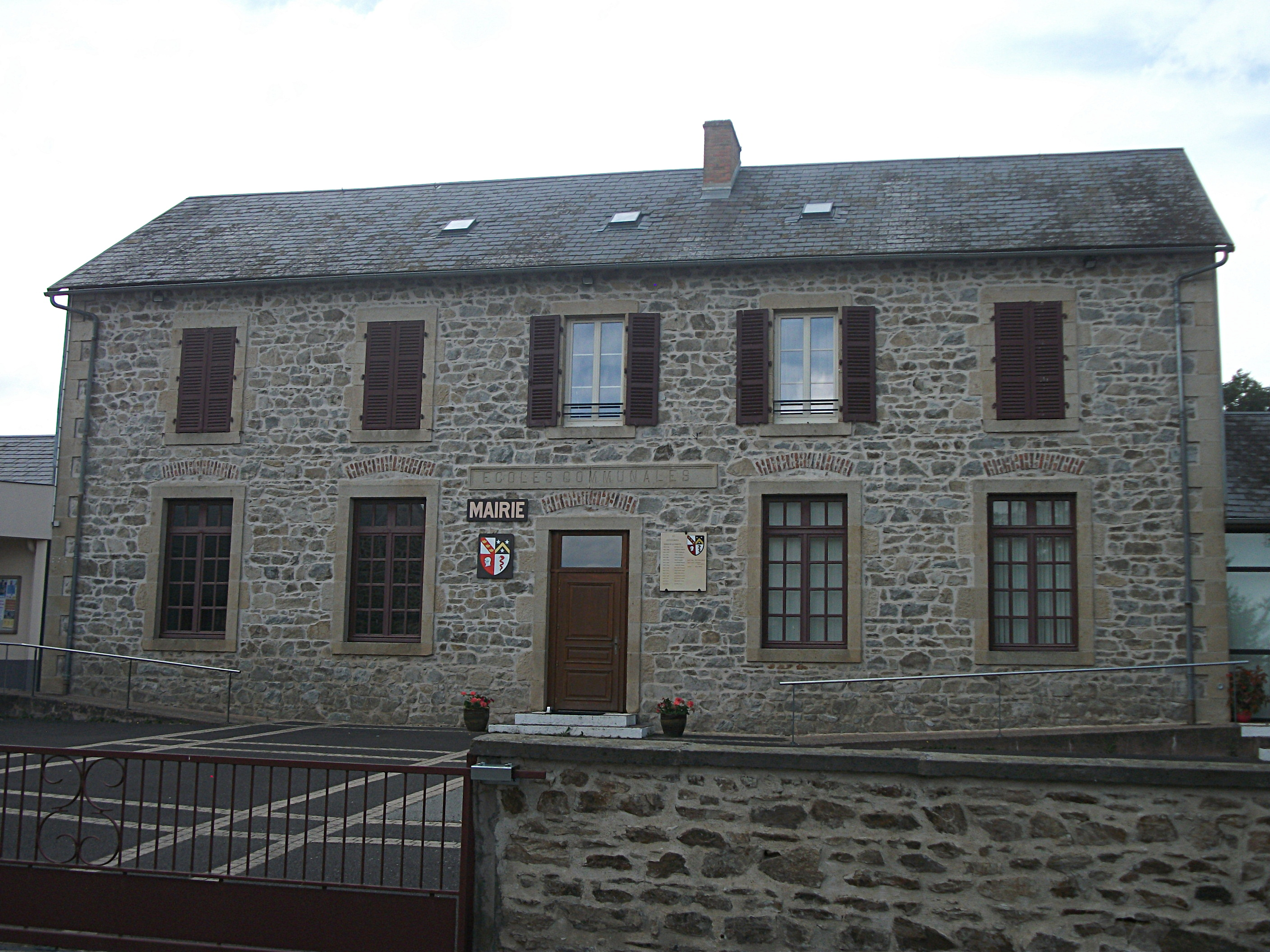 Town hall of Ayat-sur-Sioule, Puy-de-Dôme, Auvergne-Rhône-Alpes, France. [18908]